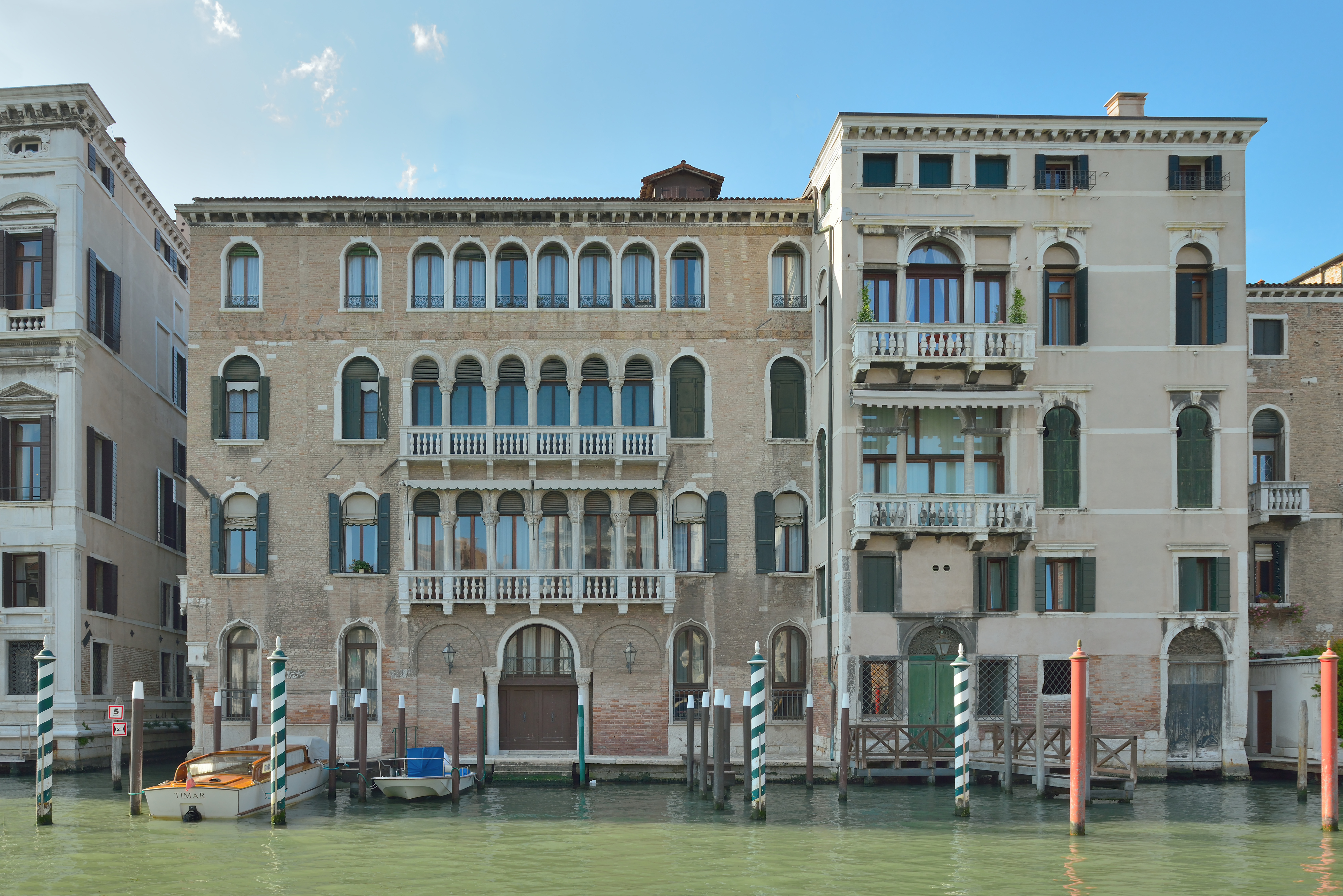 Palace Palazzo Giustinian Businello and Palazzo Lanfranchi in Venice. Facade on Grand Canal.